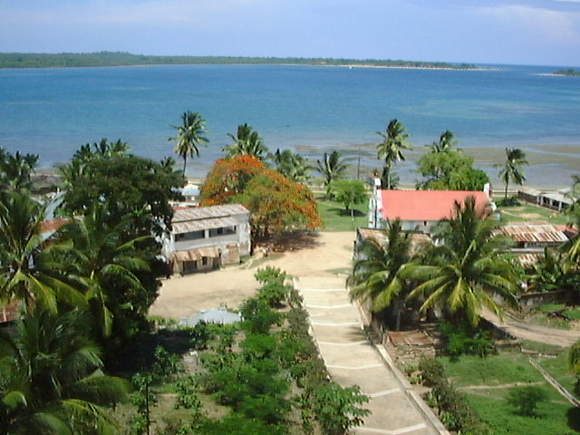 Looking down the path from the Boma, towards the North. You can see the mouth of Mikindani bay and at the bottom of the path to the left is the Livingstone house and to the right is the slave market. This Photo was taken in Dec 2000.